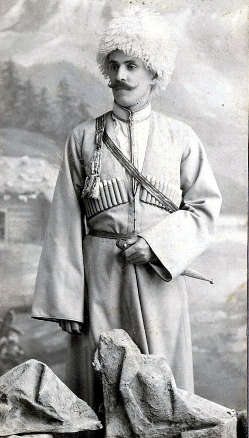 Georgian man in traditional costume chokha